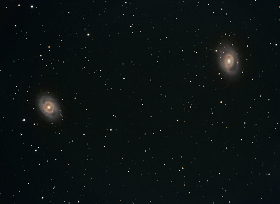 Messier 95 and Messier 96 in visible light. Credit: Scott Anttila. .